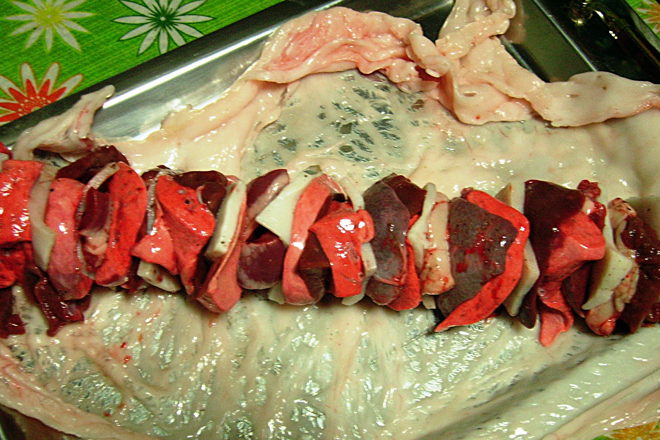 Tratalia a traditional Sardinian dish before being cocked.